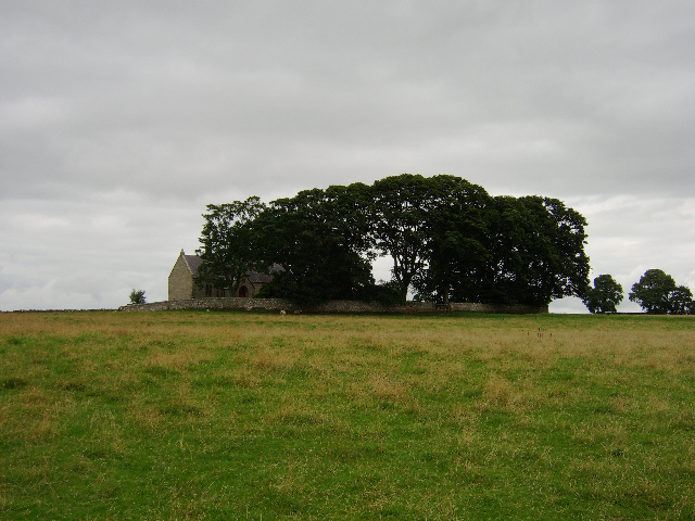 St Oswalds Church. Supposedly the site of Heavenfield, where a battle was fought in 635 between Oswald, leading a Northumbrian army, and a Welsh army under Cadwallon ap Cadfan. Oswald won, and restored Northumbria to its position of supremacy in 7th century Britain. The church was rebuilt in 1737.